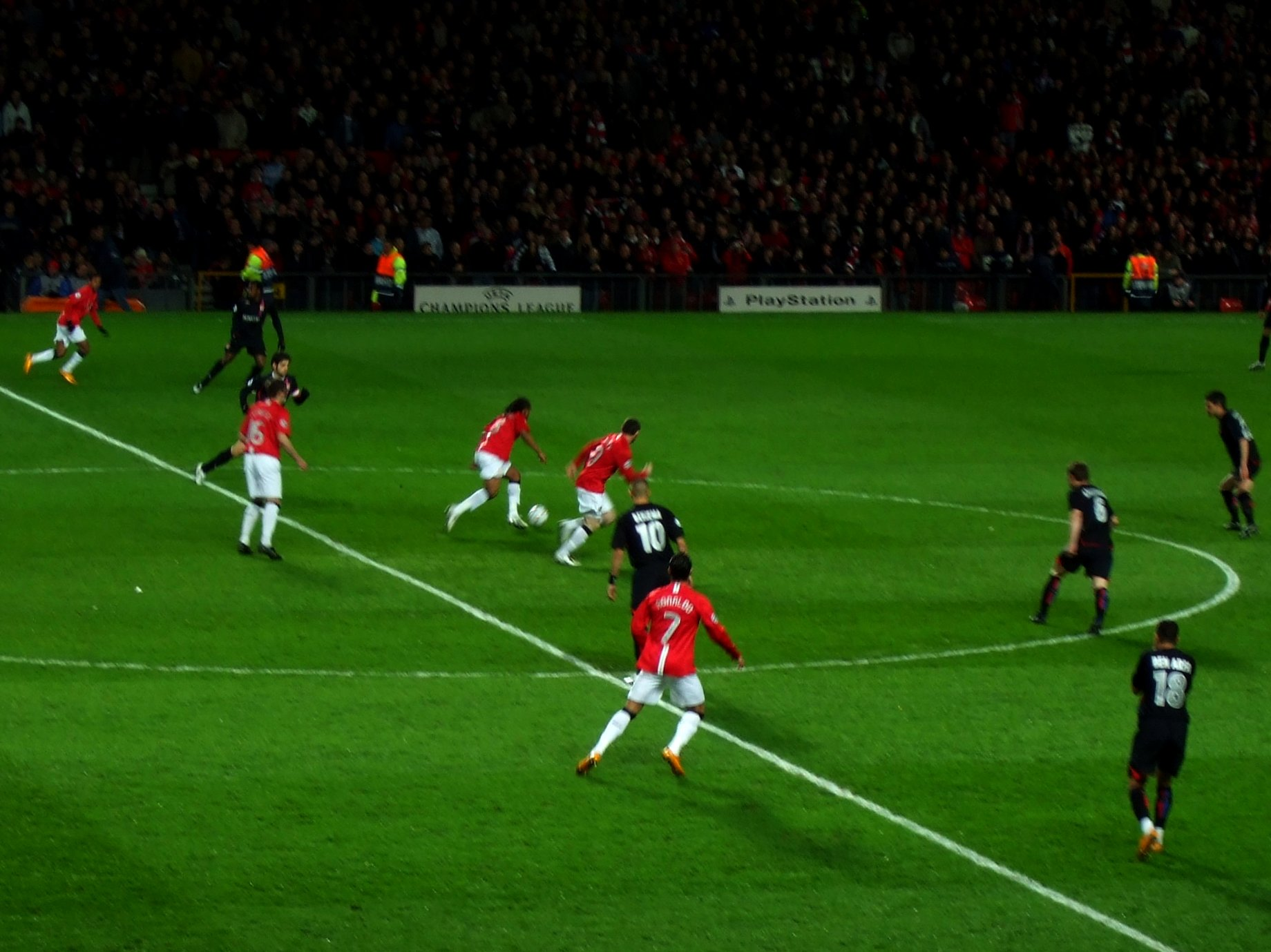 Champions League knockout round Old Trafford Man U 1 - Lyon 0